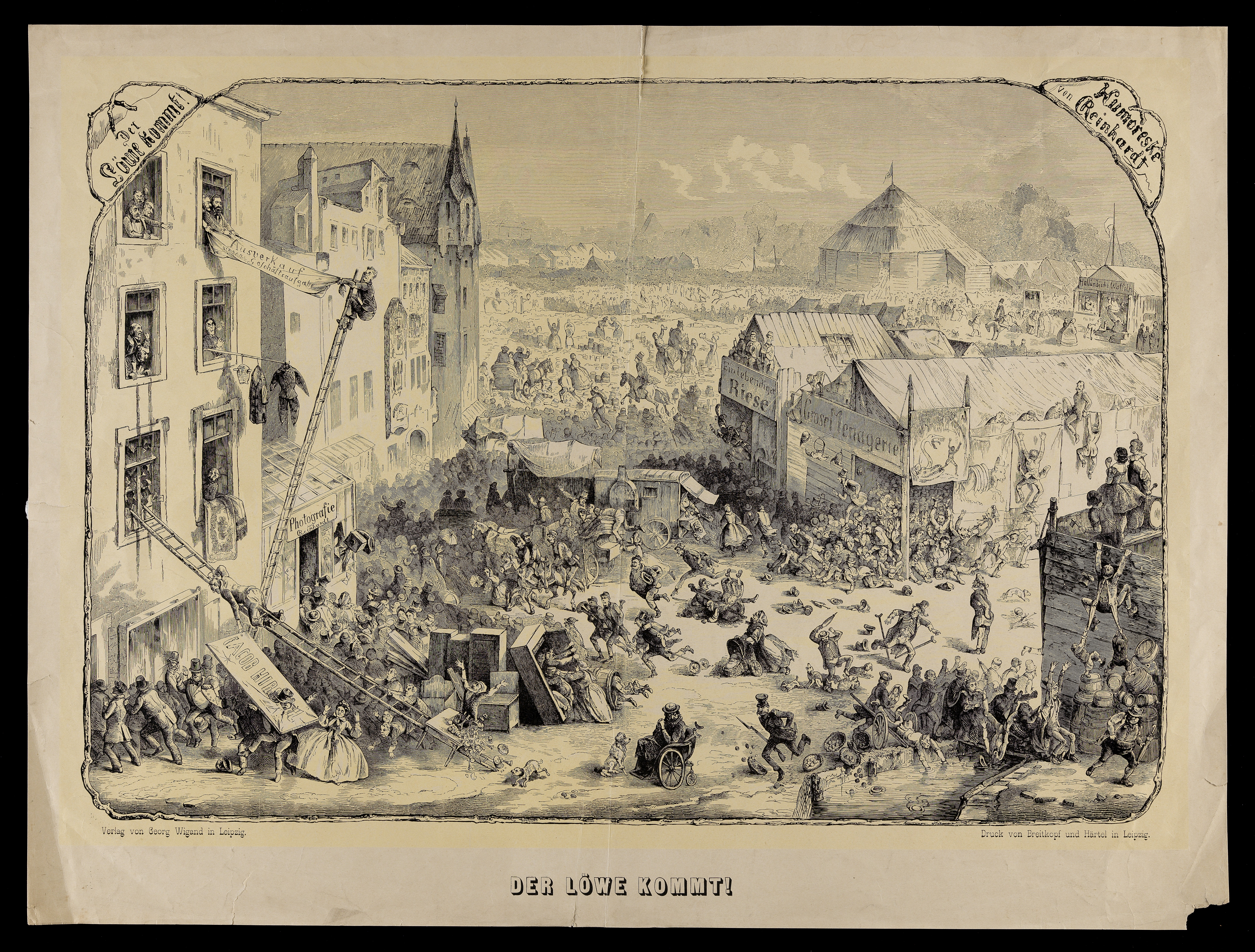 "The lion is coming": crowds at a fair panicking at the rumour that a lion has escaped; representing panic among crowds. Lithograph after K.R. Reinhardt, ca. 1860. Shops, a circus, a zoo: crowds fleeing in panic. In the centre foreground, a self-portrait of artist Reinhardt seated paralysed in a wheelchair with crutches. Iconographic Collections Keywords: Crowd; Fair; Karl Reinhardt; Disability; Self portrait; Panic